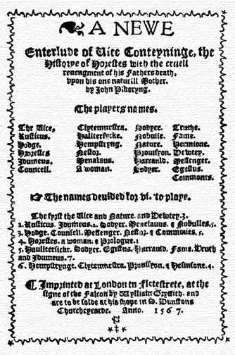 Title page [not frontispiece!] to John Pickering’s Horestes (1567)